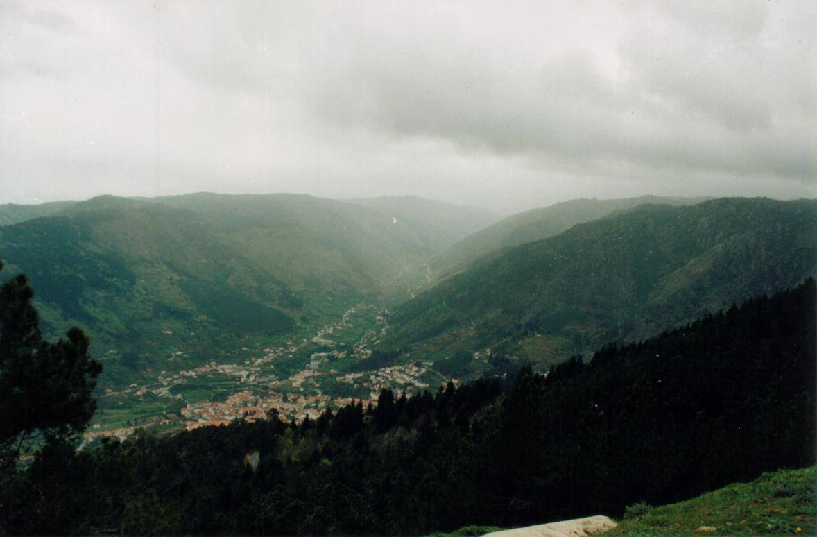 Manteigas and the glacial valley of the Zêzere river. Photo taken in 2002.